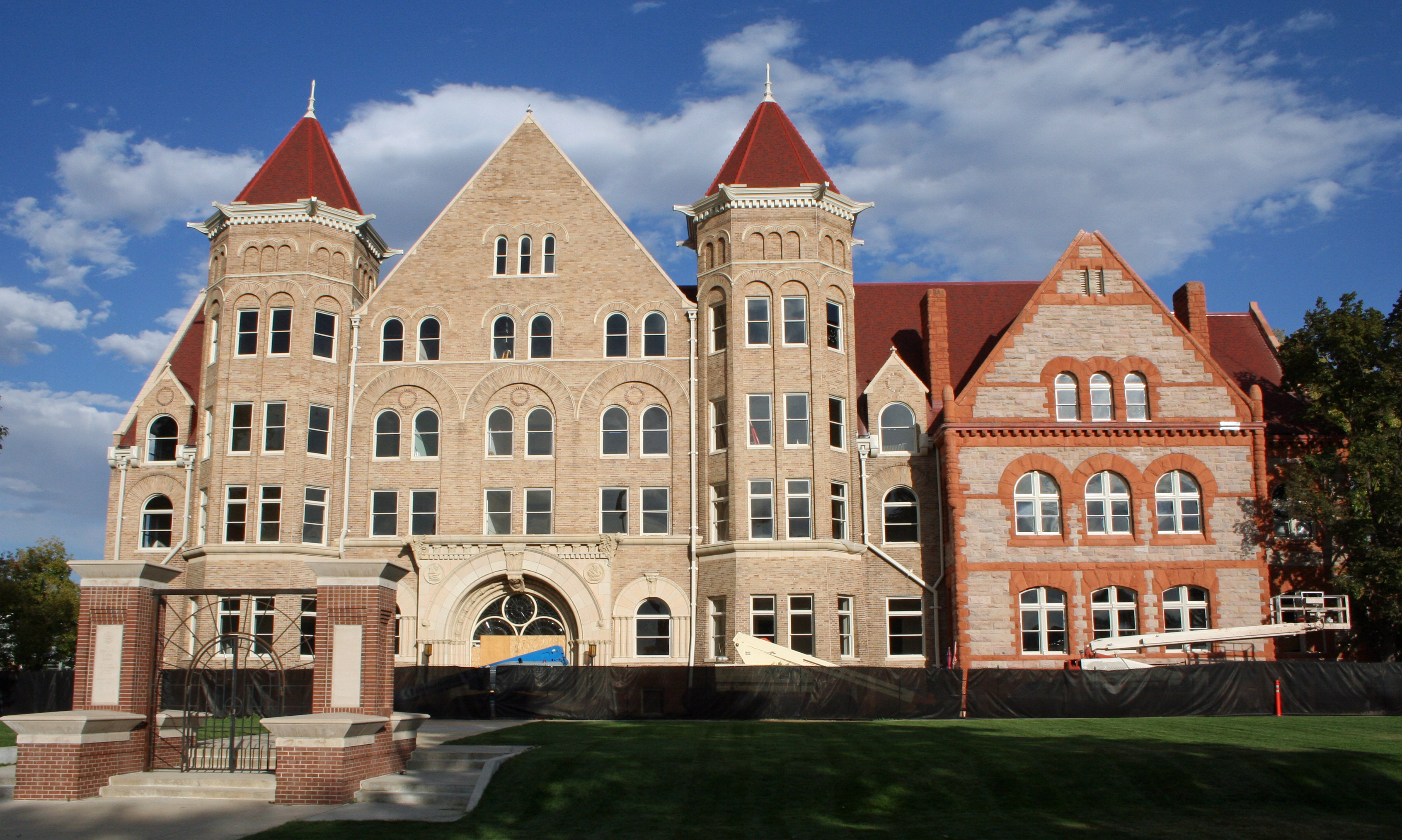 Treat Hall at Johnson & Wales University in Denver, Colorado.